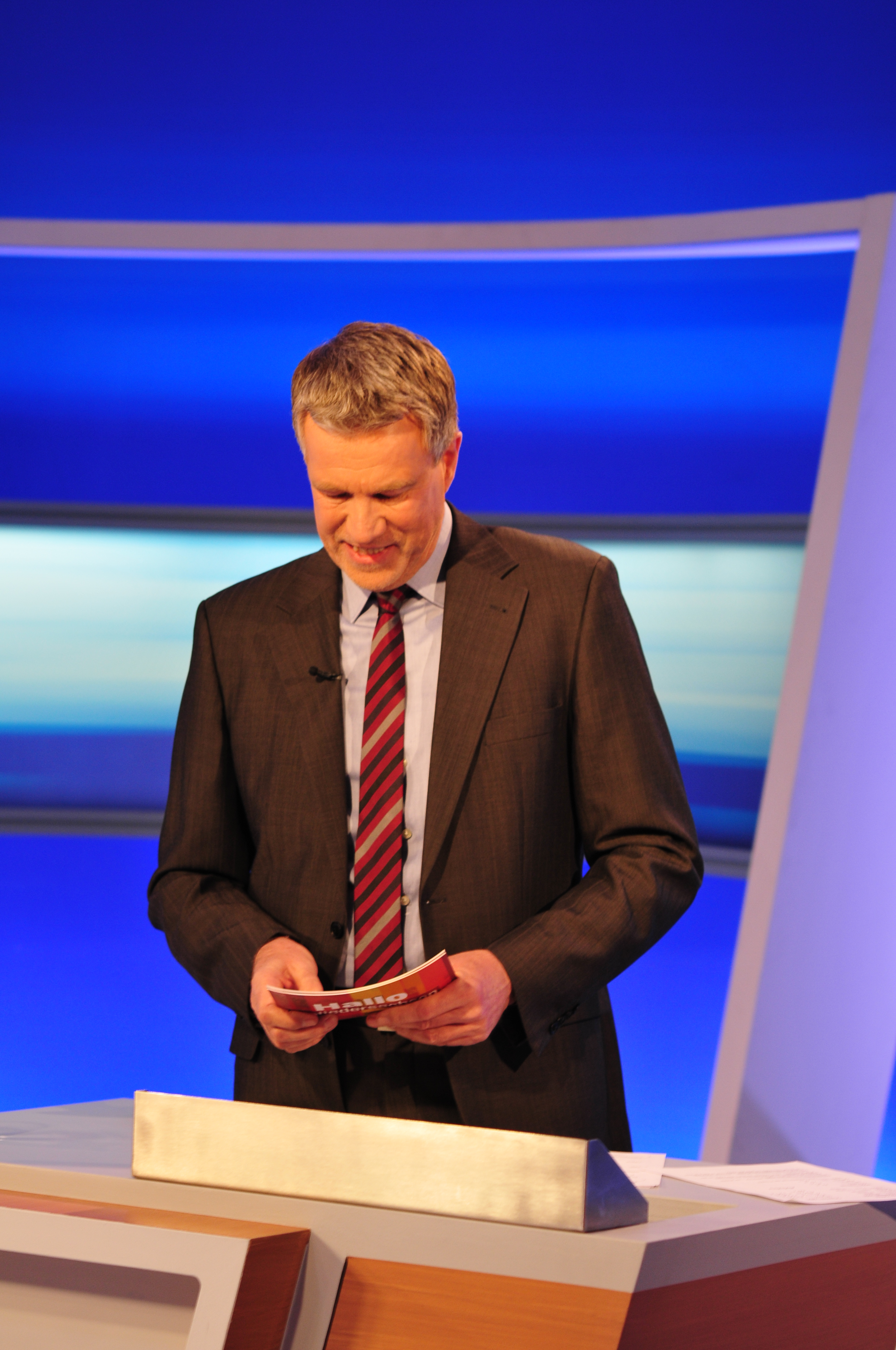 Wikipedia im Landtag – Niedersachsen 20. Januar 2013 in Hannover am WahlabendDieses Bild entstand während der Landtagswahl in Niedersachsen 2013 im Landtag Hannover. This work is free and may be used by anyone for any purpose. If you wish to use this content, you do not need to request permission as long as you follow any licensing requirements mentioned on this page.